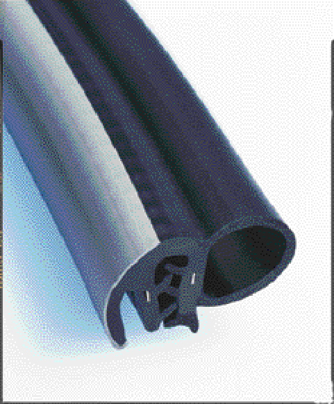 Automotive profiles is a typical application